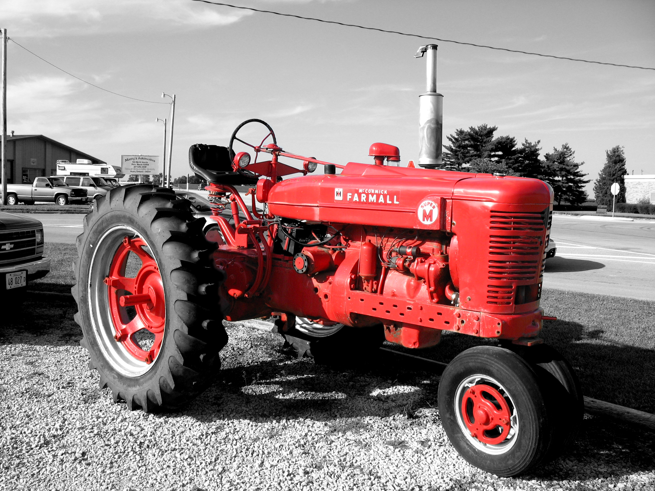 Farmall Super M tractor